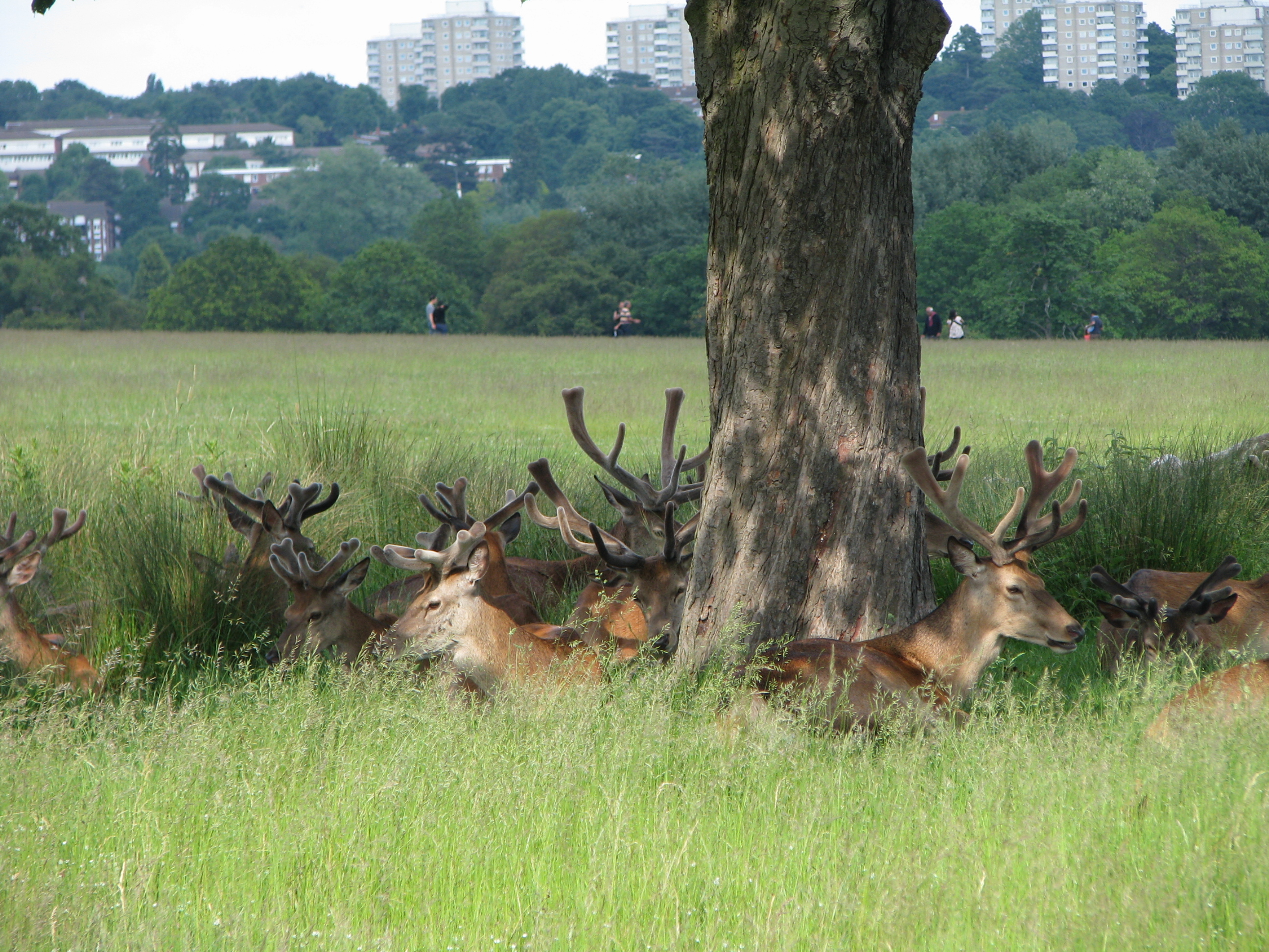 deer in richmond park, london